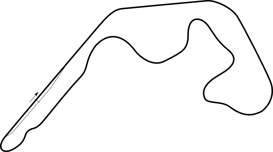 Layout of the Autódromo Yahuarcocha in Ibarra, Ecuador